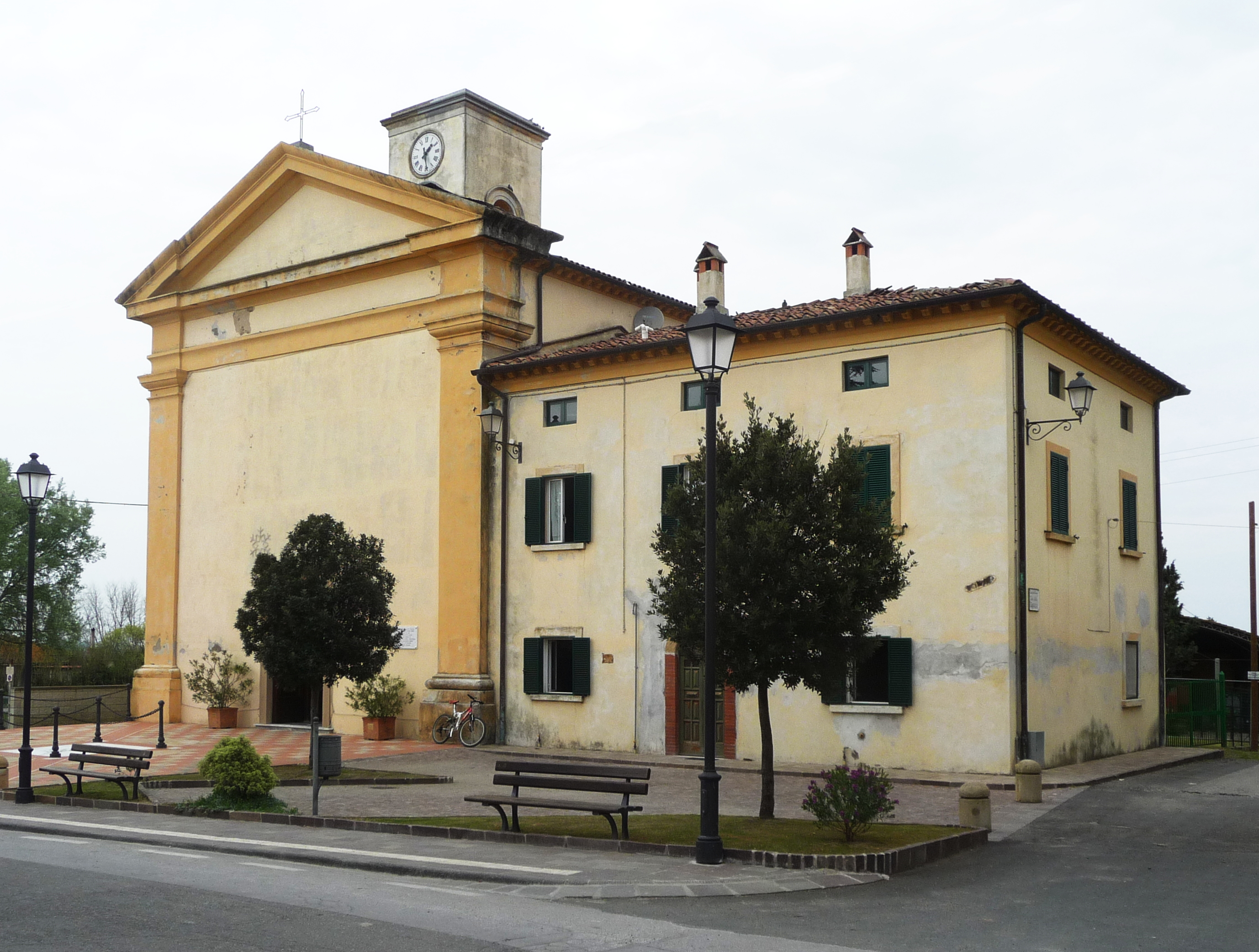 Church "San Michele", Orciano Pisano, Province Pisa, Tuscany, Italy